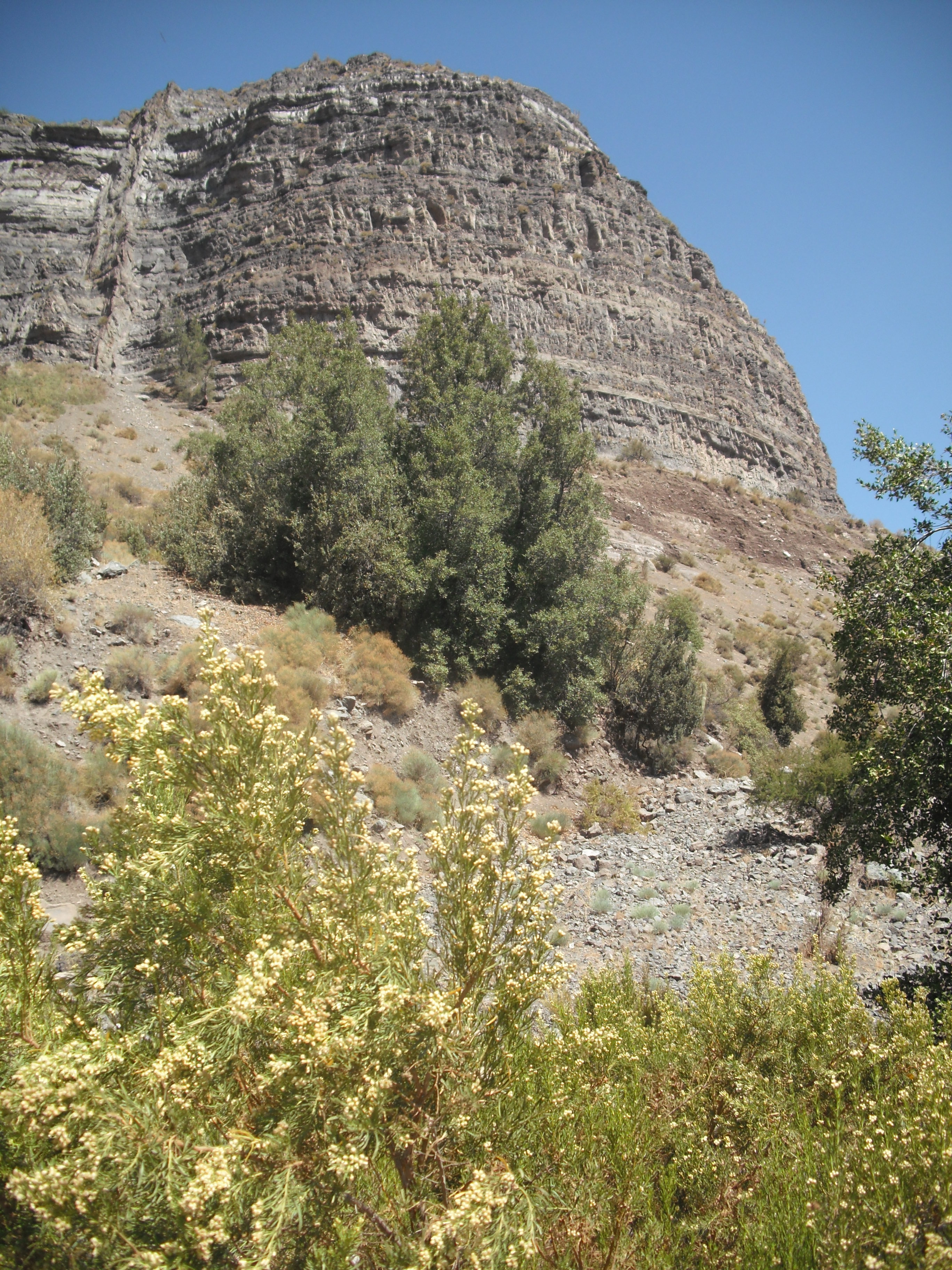 Cajon Río Colorado